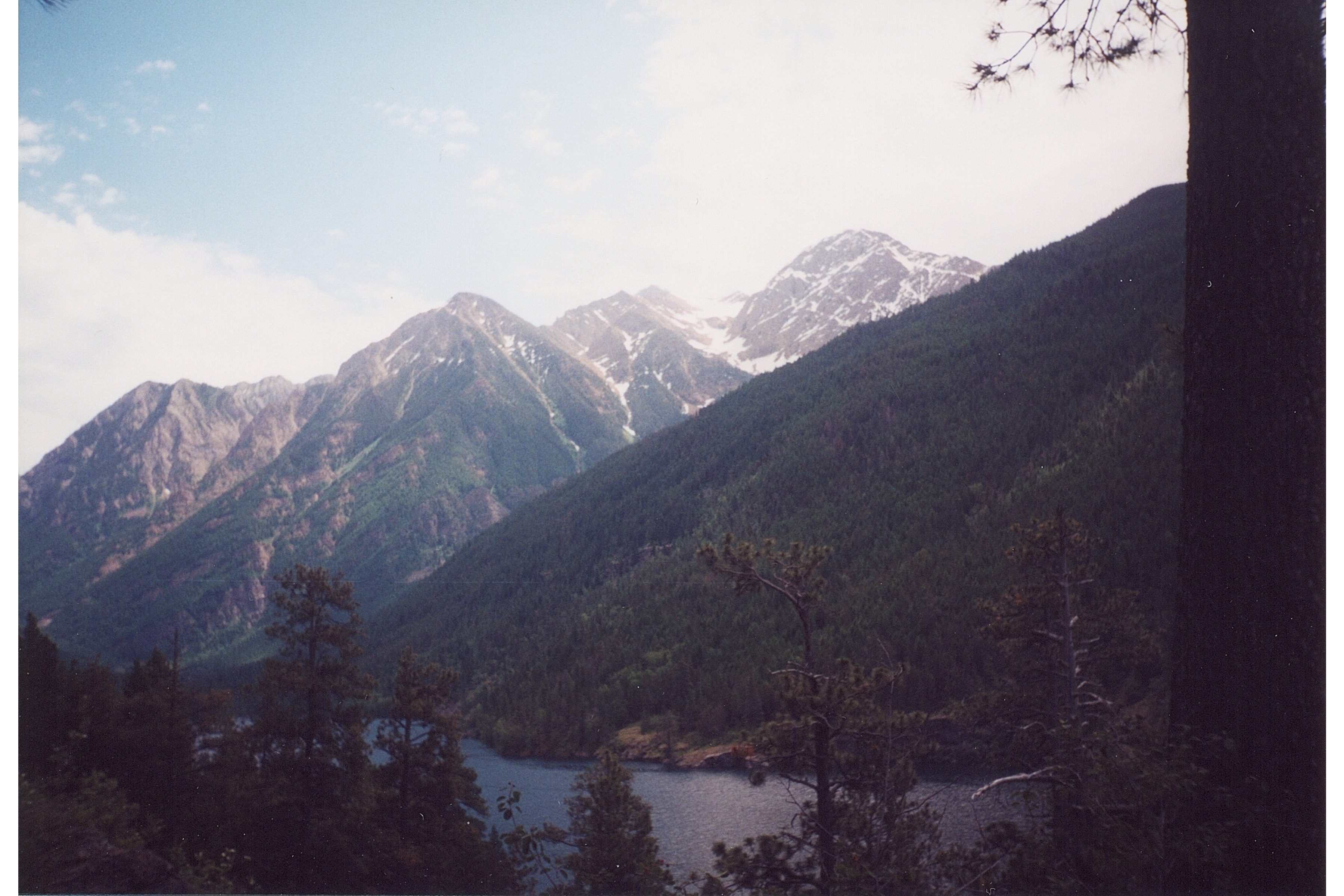 Looking towards McDonald Peak, el. 9,820', and McDonald Glacier, Mission Mountains Montana. Photo taken summer 2000 by John David Stutts.